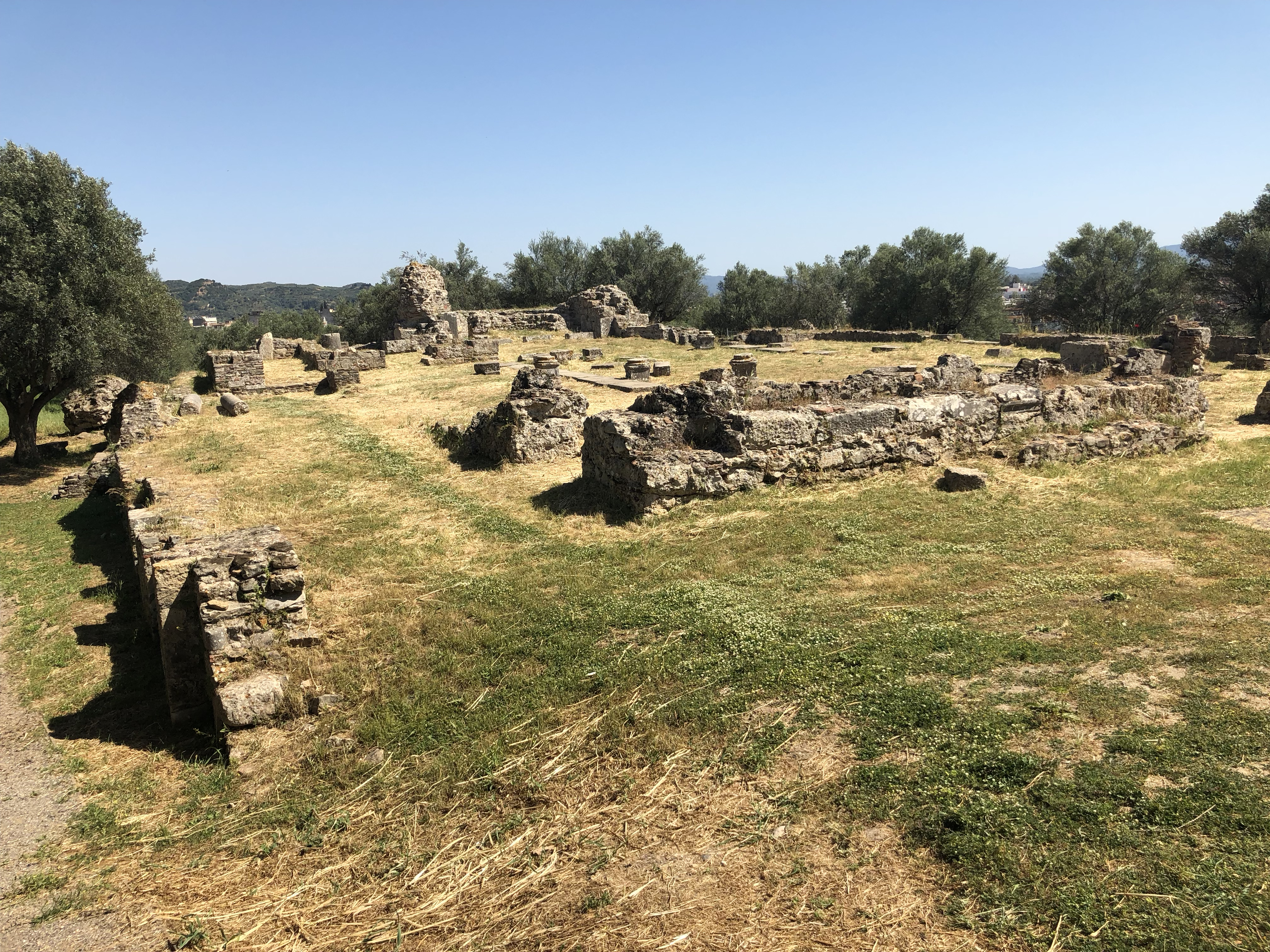 St. Nikon basilica